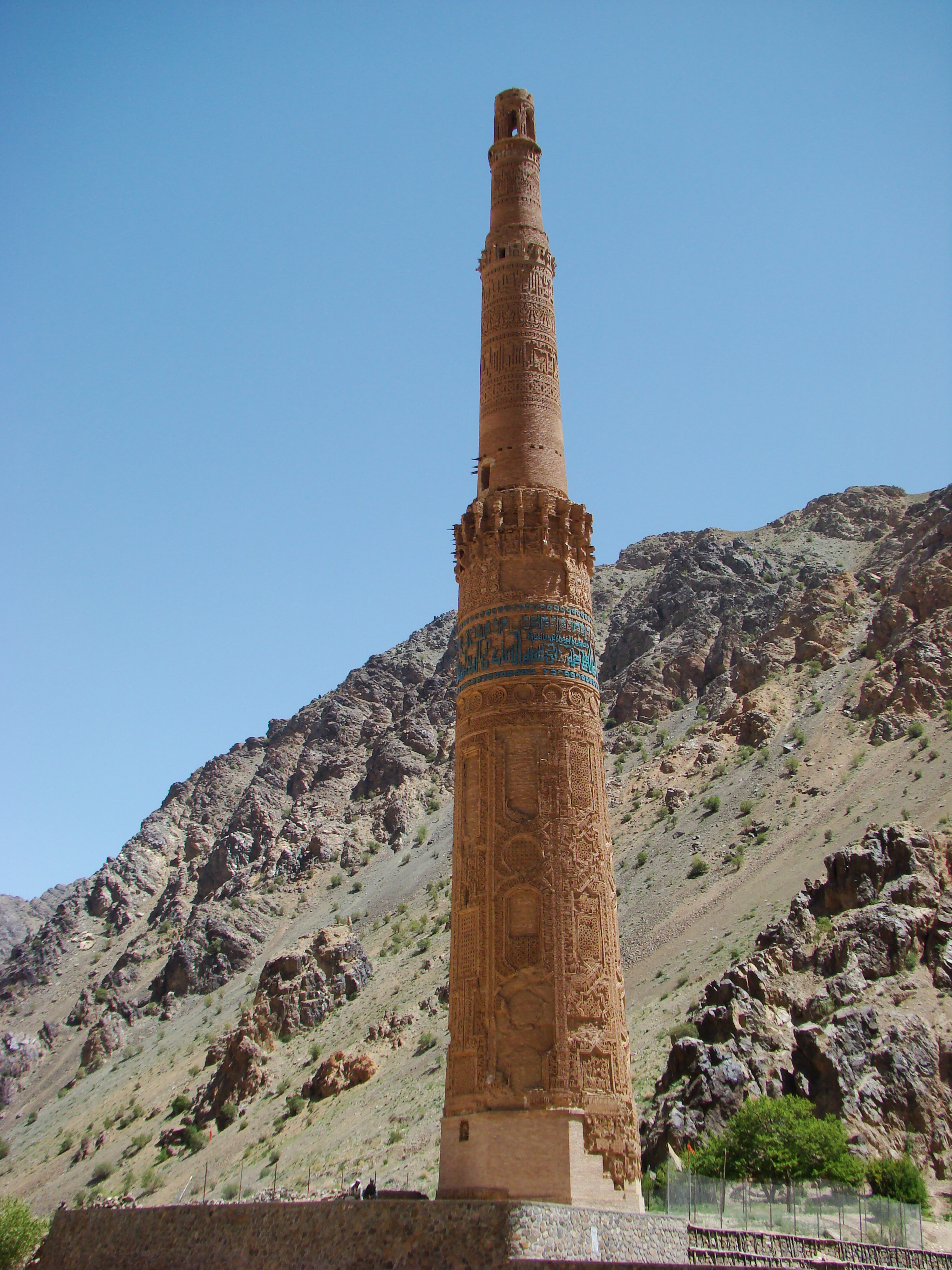 Minaret in valley (Jam minaret, Ghowr province). This minaret is a UNESCO world heritage site and was forgotten to the outside world until 1957.